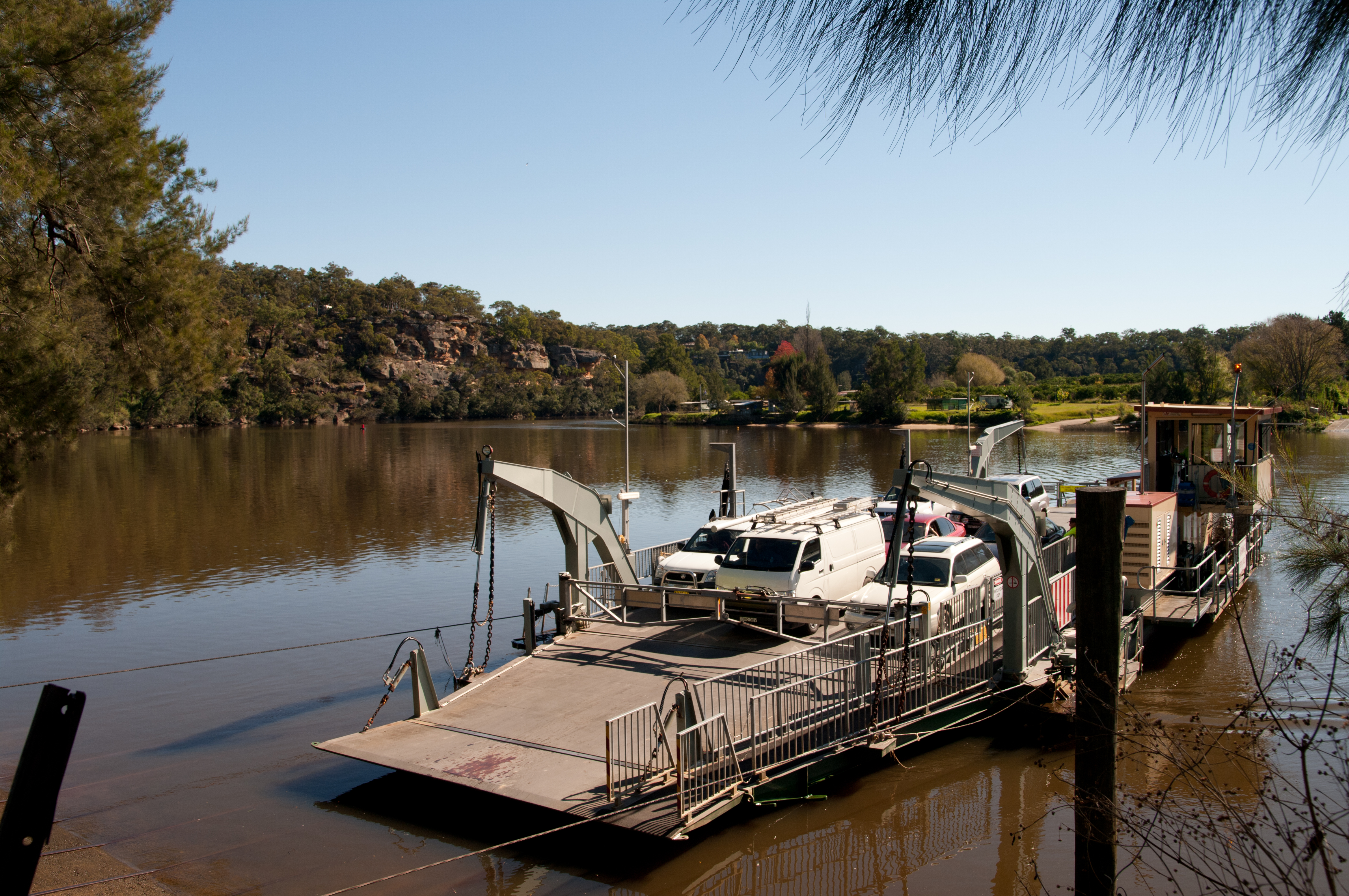 Sackville Ferry is a cable ferry across the Hakesbury river